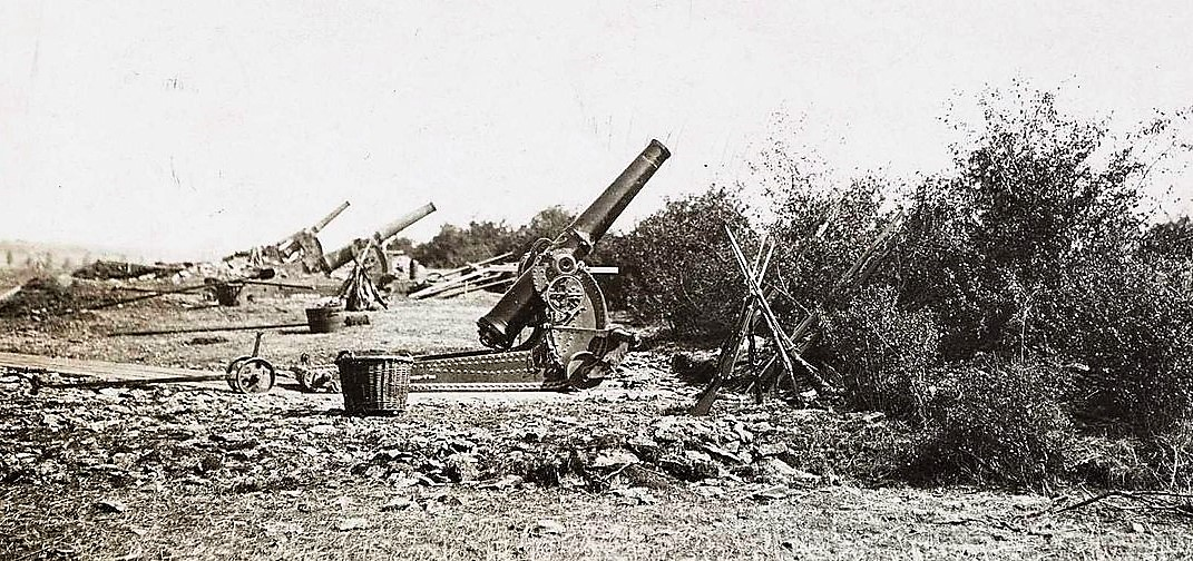 Dans l'Argonne. Batterie de 270 en position.